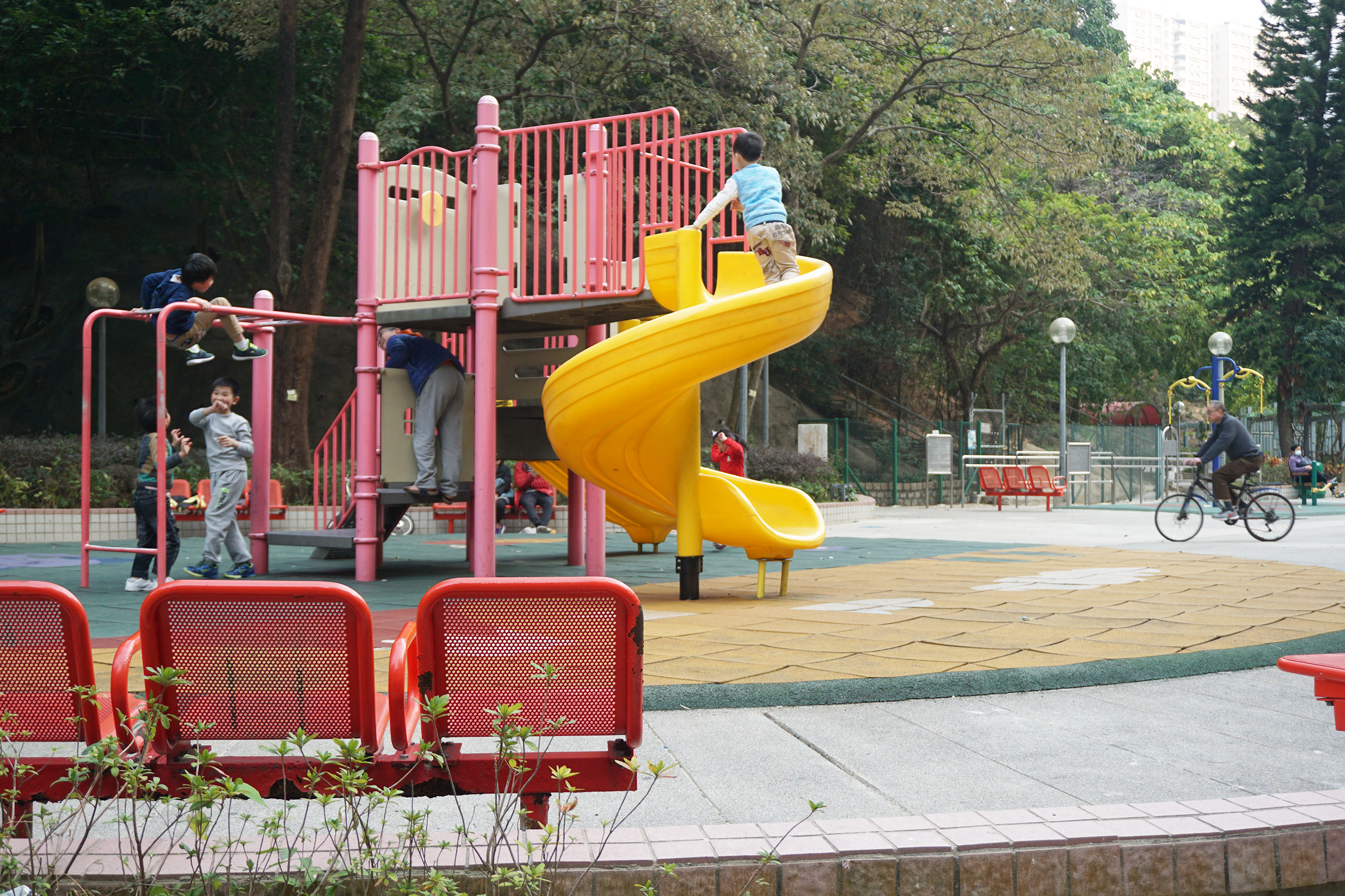 Lung Hang Estate in Tai Wai, Hong Kong.